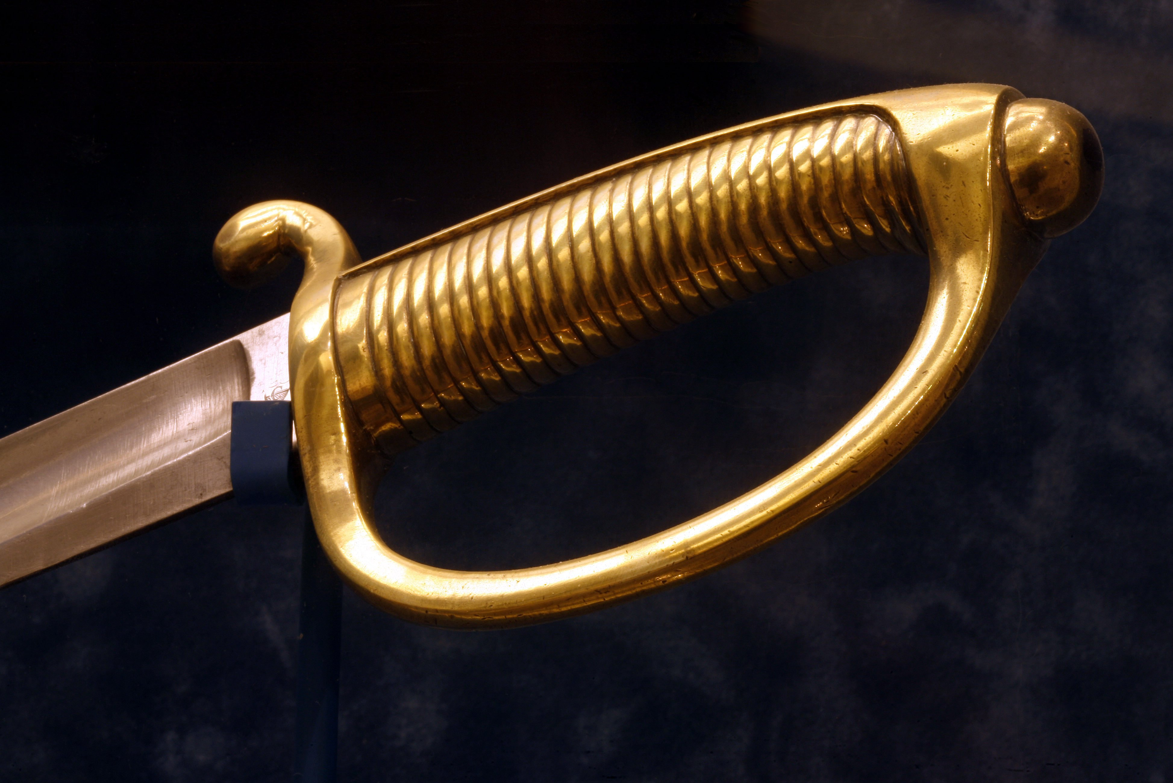 Sabre of an officer of the militia of Lausanne